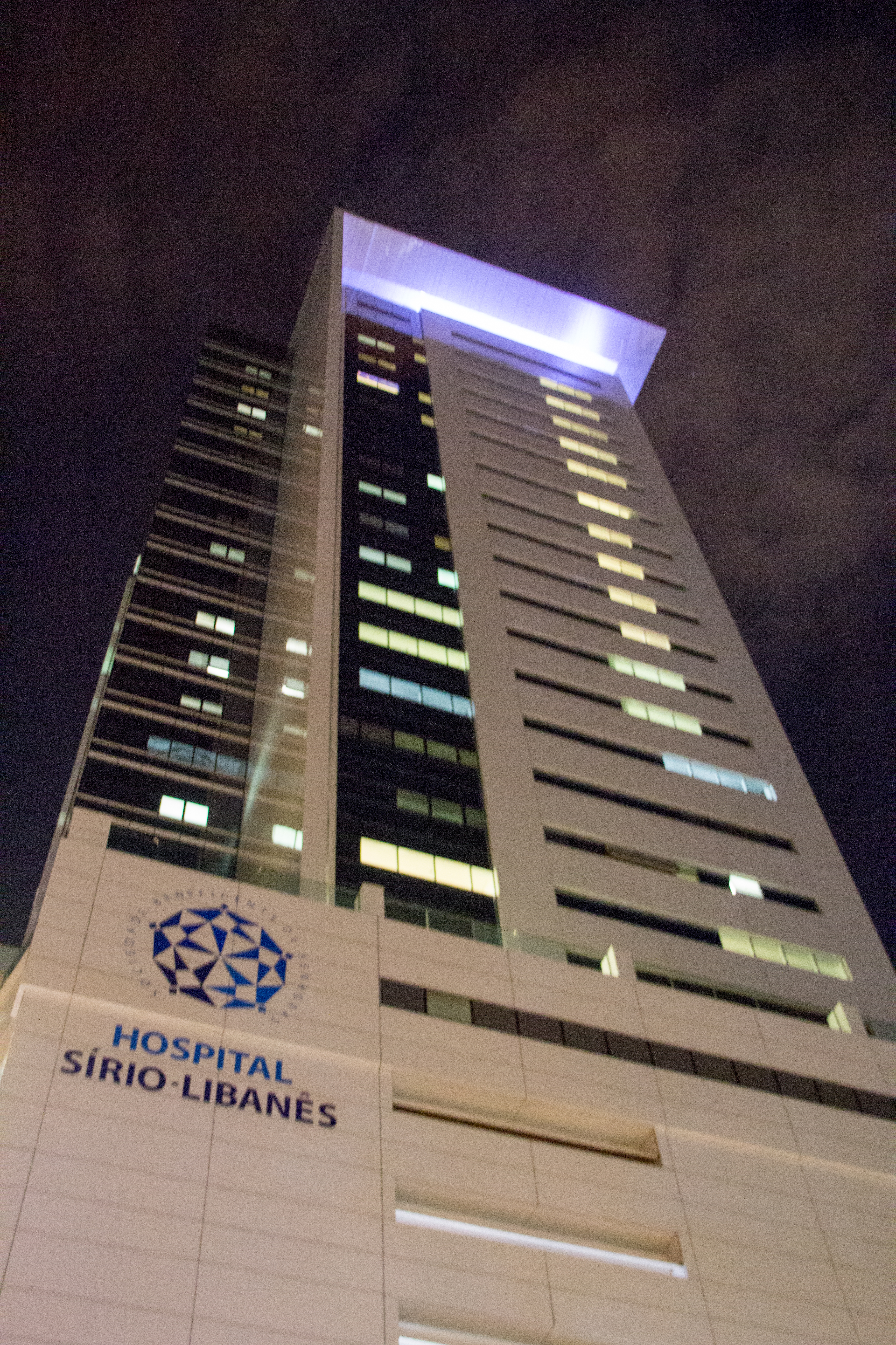 Photos taken on 'Caminhada Noturna' in São Paulo, Brazil.